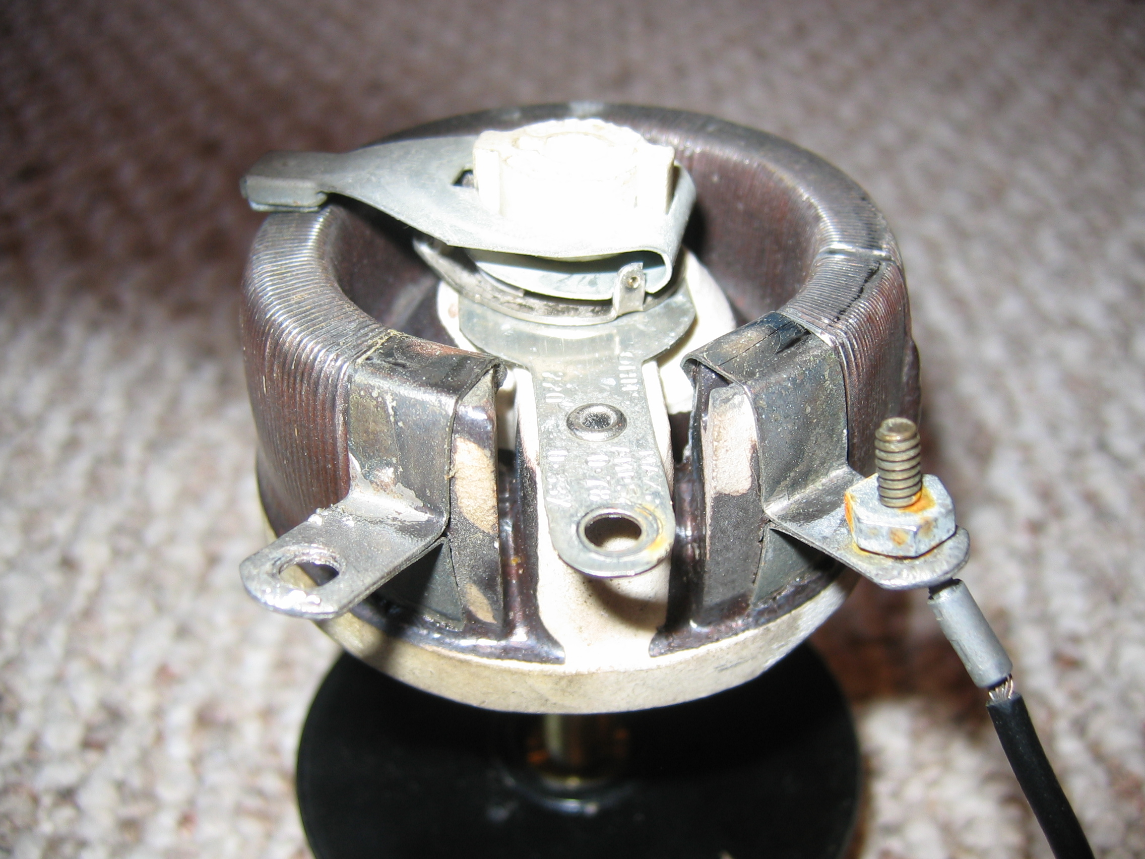 An old wirewound potentiometer manufactered by Ohmite for an X-ray tube power supply. Because of the wire wound nature of this potentiometer it displays high amounts of inductance and can also be used to some extent as a variable autotransformer.